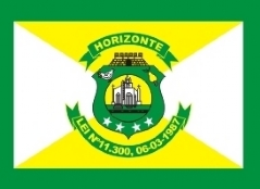 Flag of Ceará's Horizonte city, Brazil.